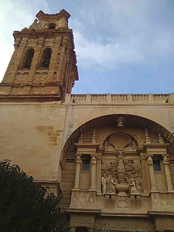 Church of La Asuncion in Almansa (Spain).